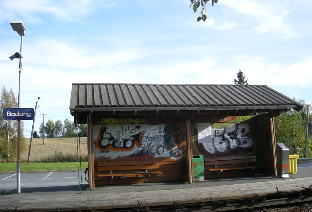 Bodung station on the Kongsvinger line (Akershus, Norway)